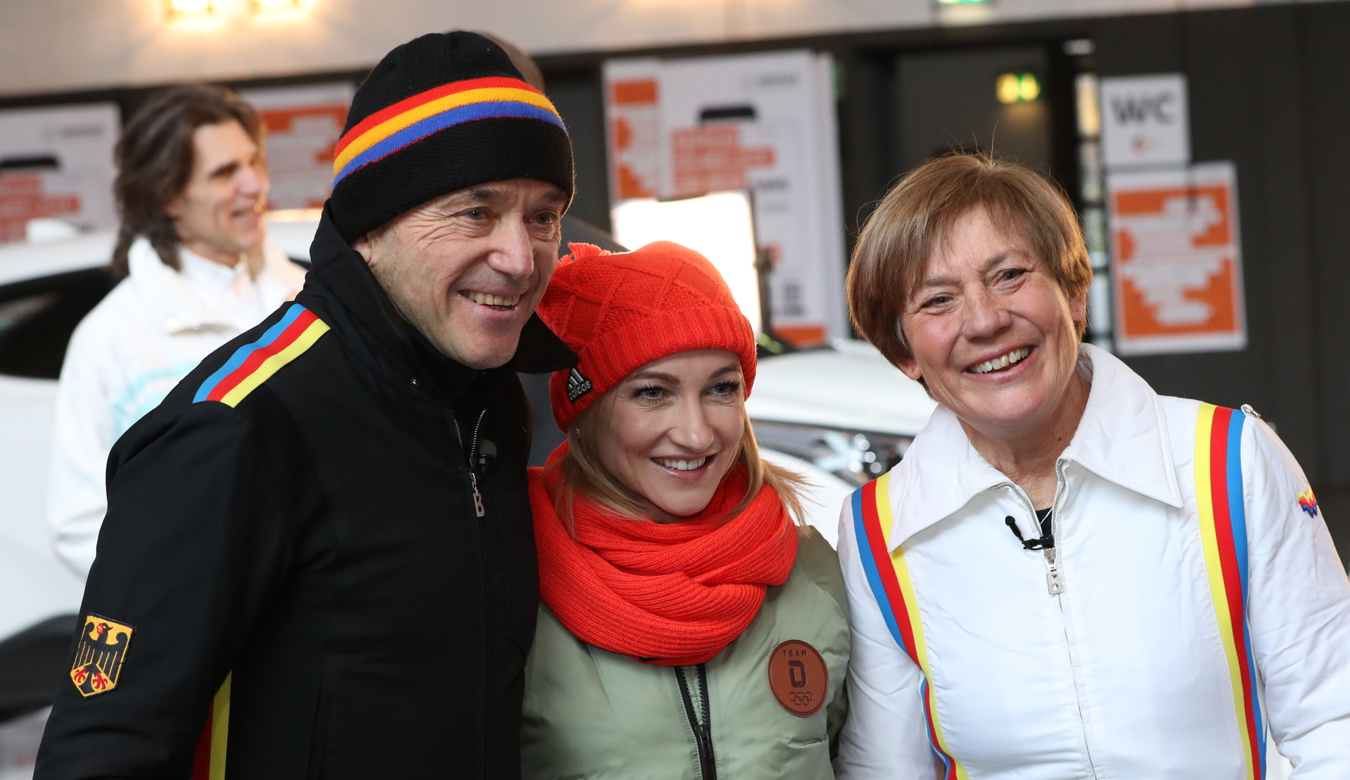 Investiture of the German team for Winter Olympics 2018 in Pyeonchang: Christian Neureuther, Aljona Savchenko, Rosi Mittermaier